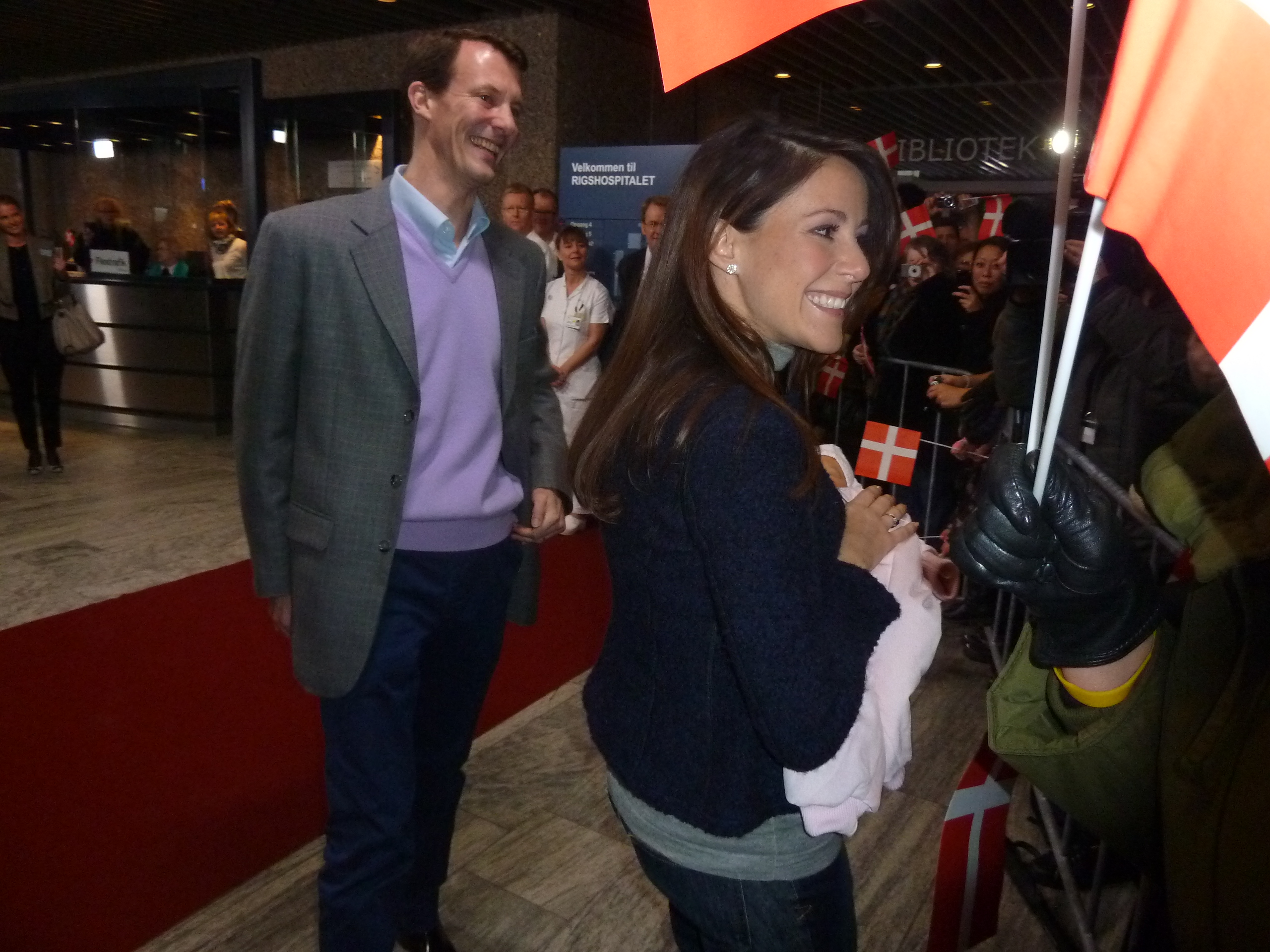 Prince Joachim and Princess Marie of Denmark meet the public with their three days old daughter. The little new princess slept the whole time.